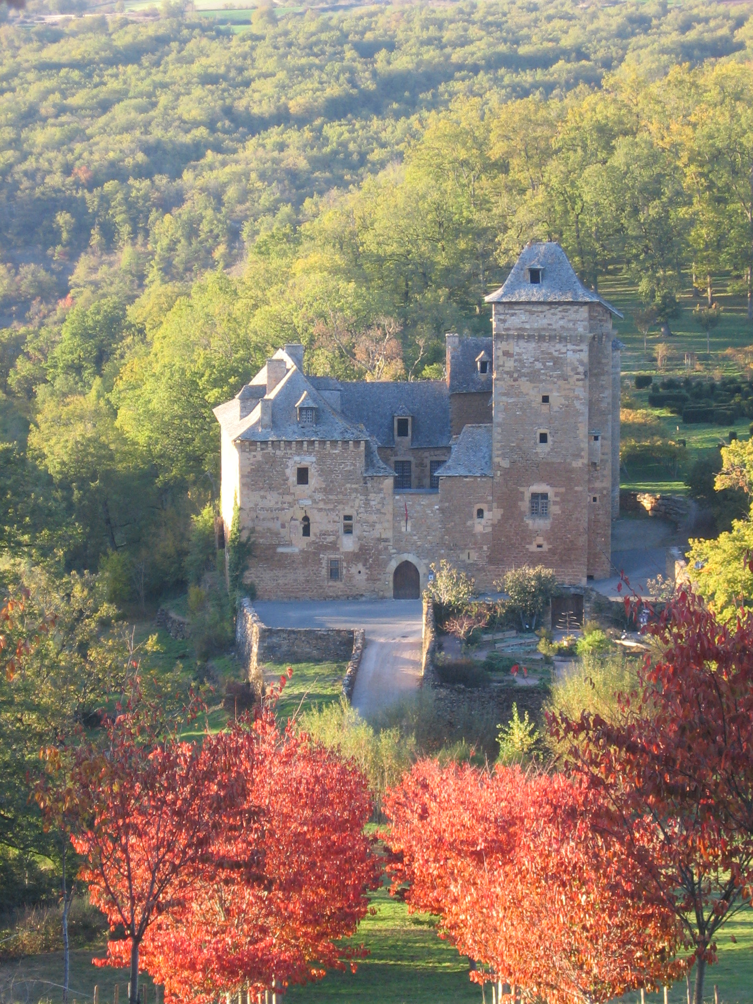 Colombier Castle is the tiny hamlet of Mondalazac-Salle la Source near Rodez is the 1000 yr old ancestral seat of the Counts of La Panouse, Senechals du Rouergue et crusader knights; The medieval Eden Garden created by Annabelle, Countess de La Panouse, the Castle, and the Live Bestiary created by Paul, the present Count, are the illustration of medieval lifestyle and are open to the public every year from Easter to October. .